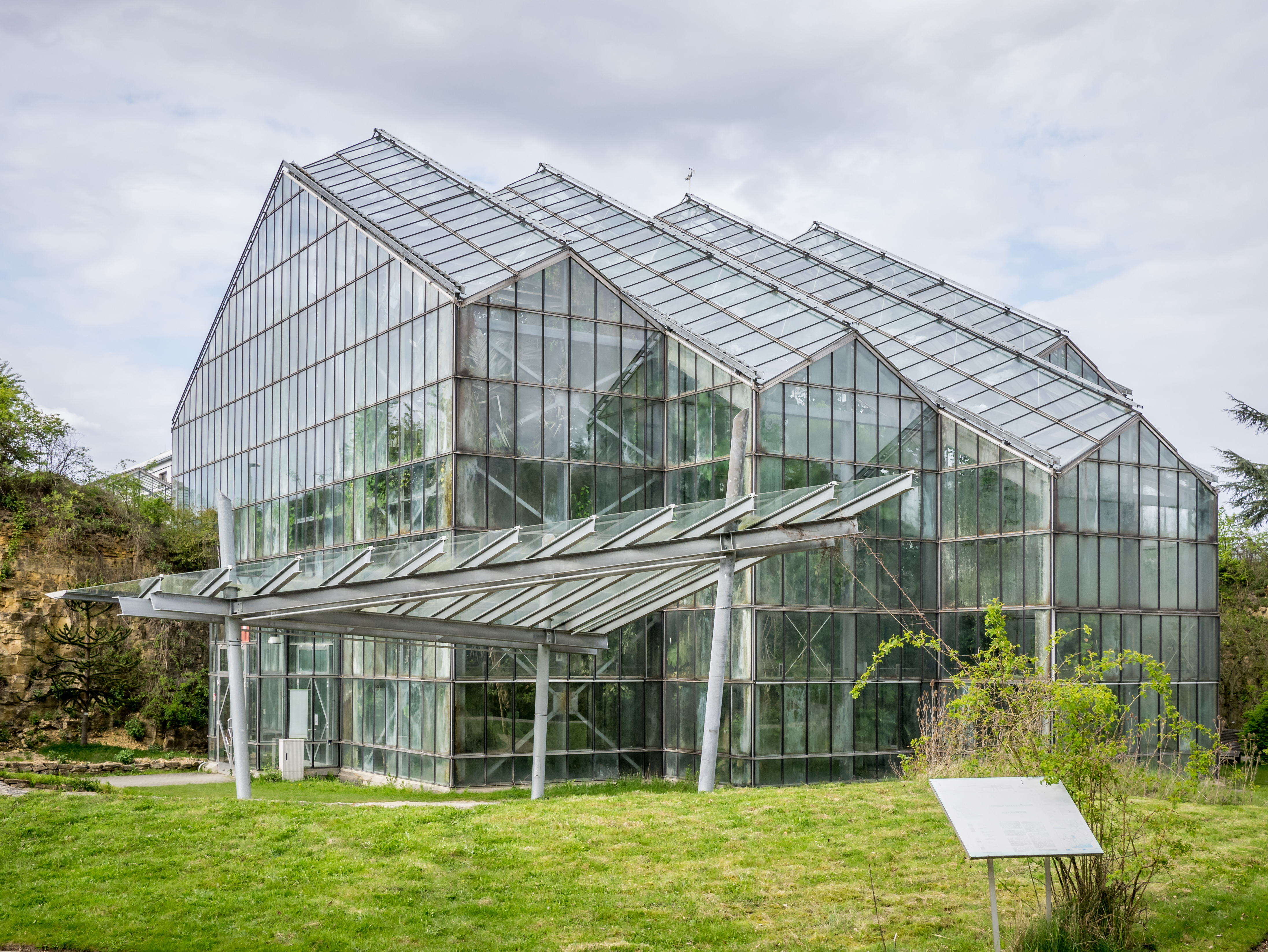 Tropical glasshouse in the Botanical Garden. Osnabrück, Lower Saxony, Germany